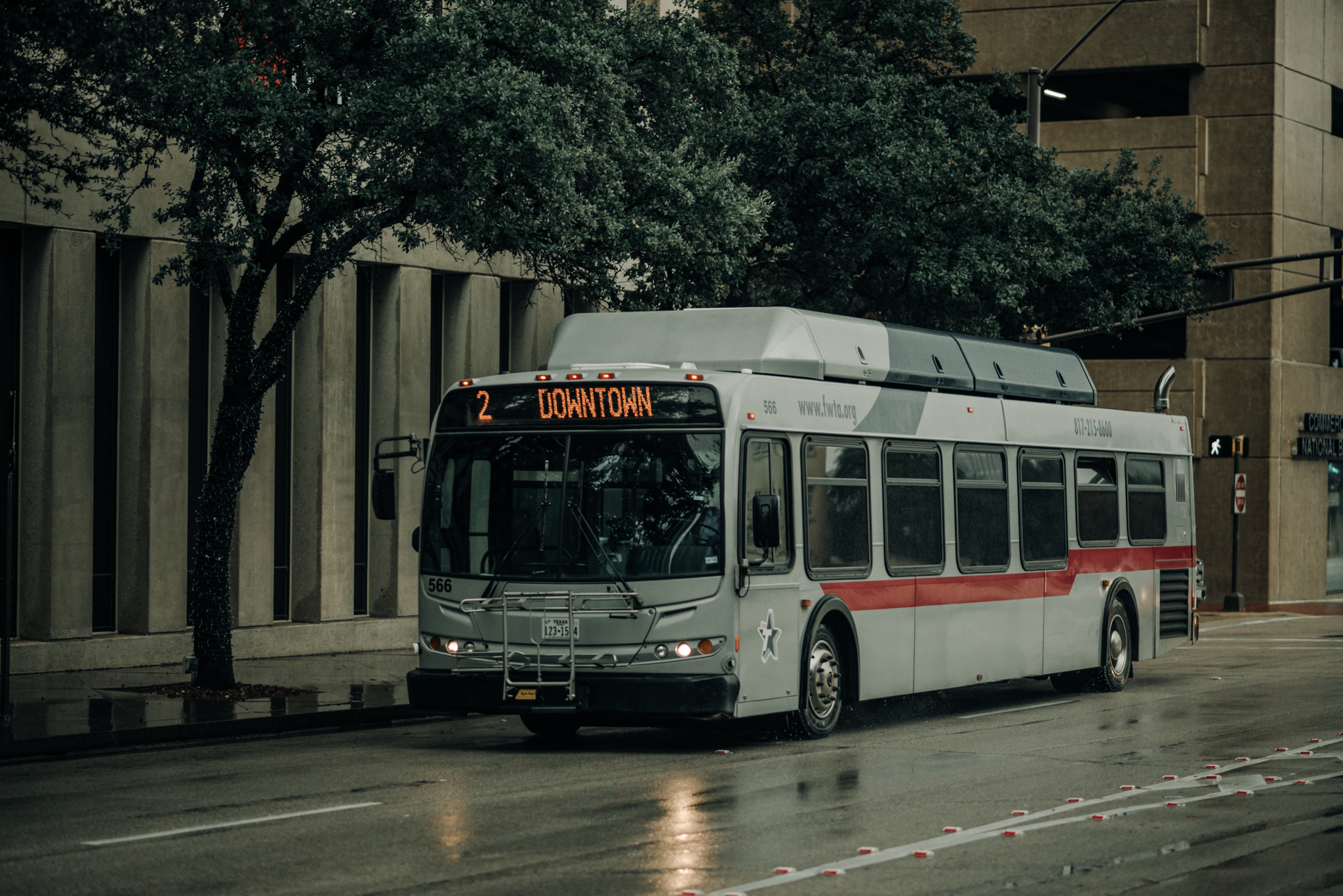 Fort Worth Transportation Authority Route 2 bus driving east in the rain in downtown Fort Worth, TX